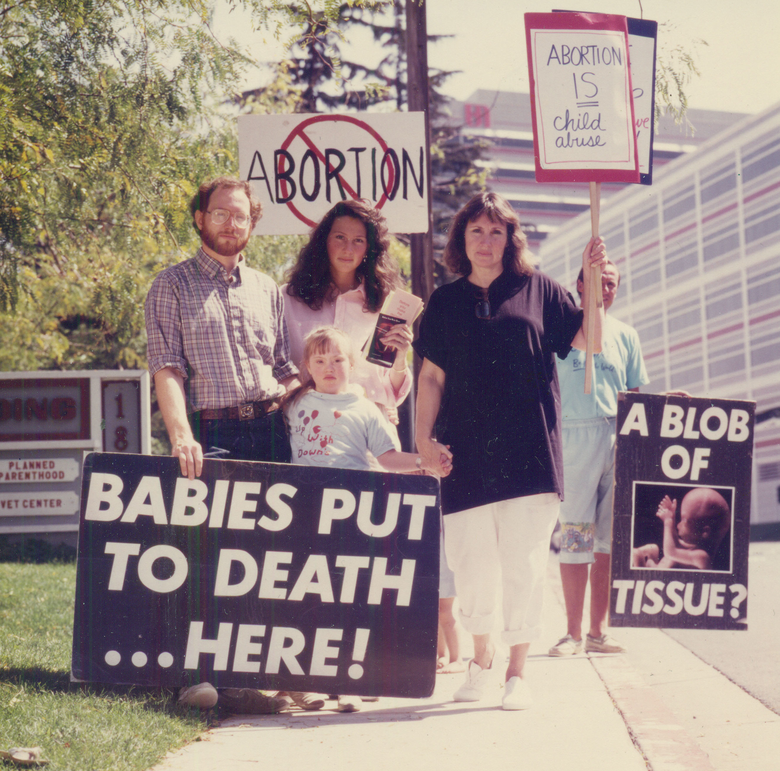 Anti-abortion protest, 1986. Photo by Nancy Wong